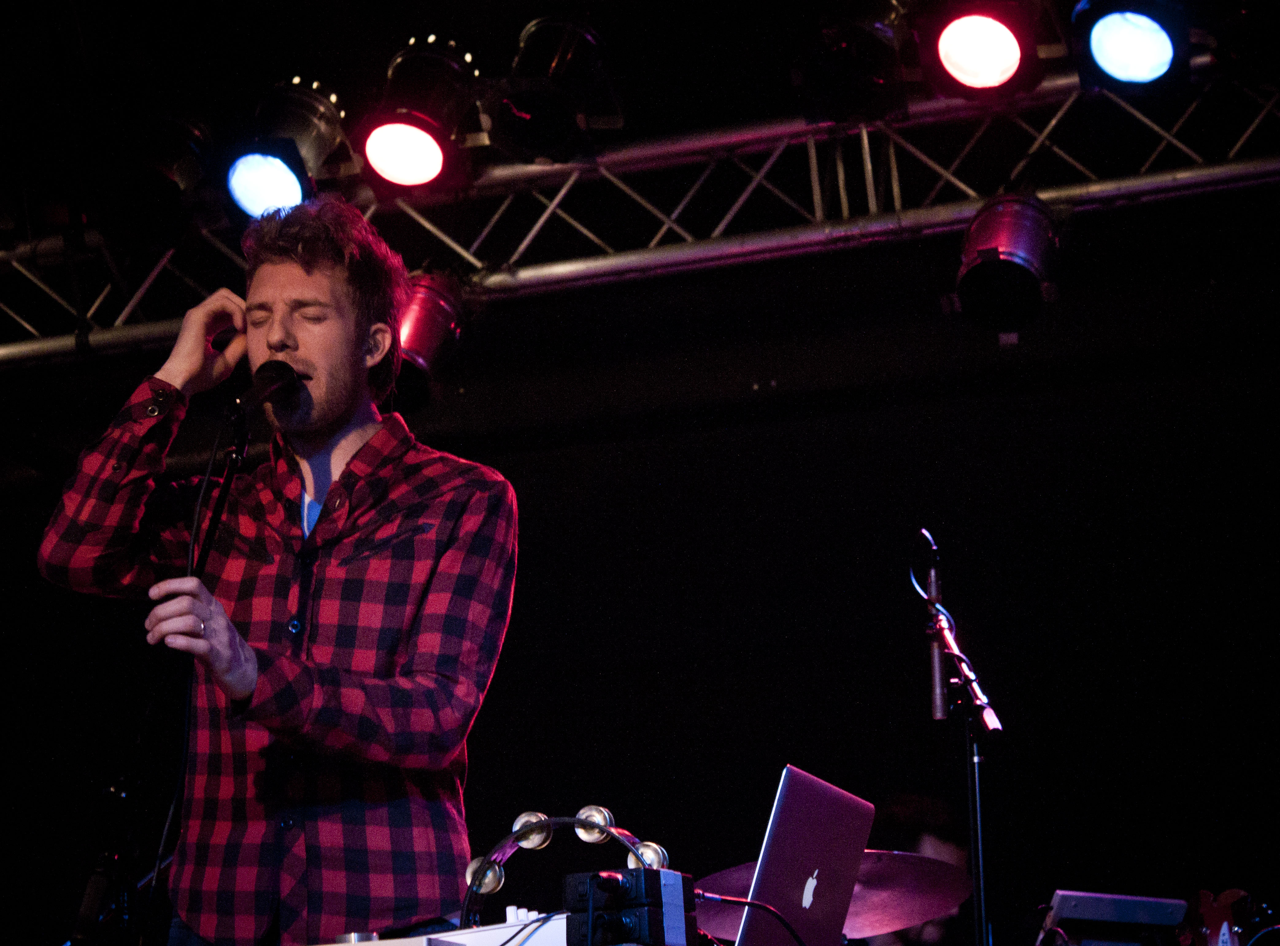 Andrew Belle kicked off the East Coast leg of his "Black Bear Tour" on Monday, November 11, 2013 at the Brighton Music Hall with co-headliner, LEAGUES. Photos by Larissa Burgess © 2013.